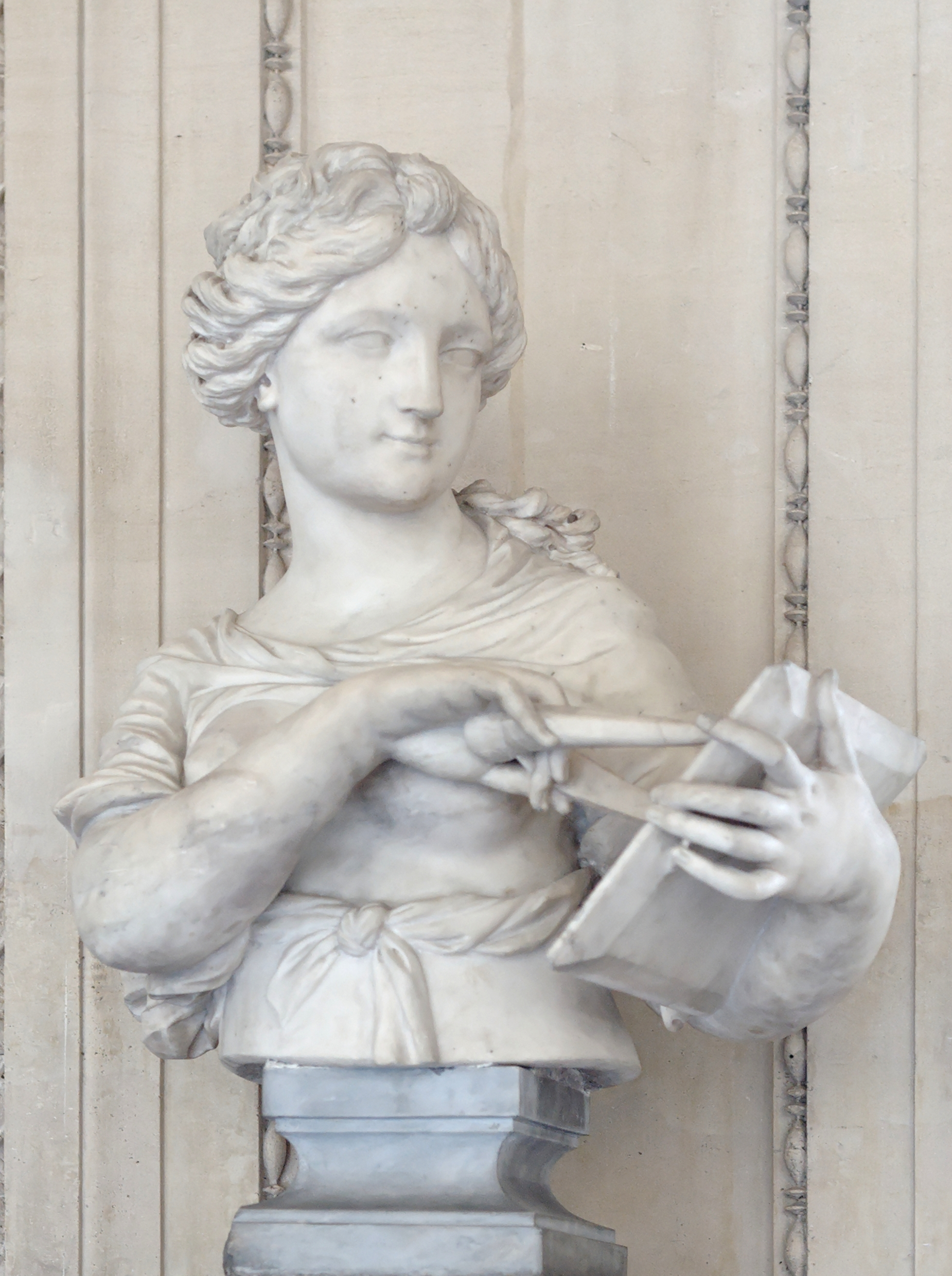 Geometry. Marble, Genoa, 18th century.